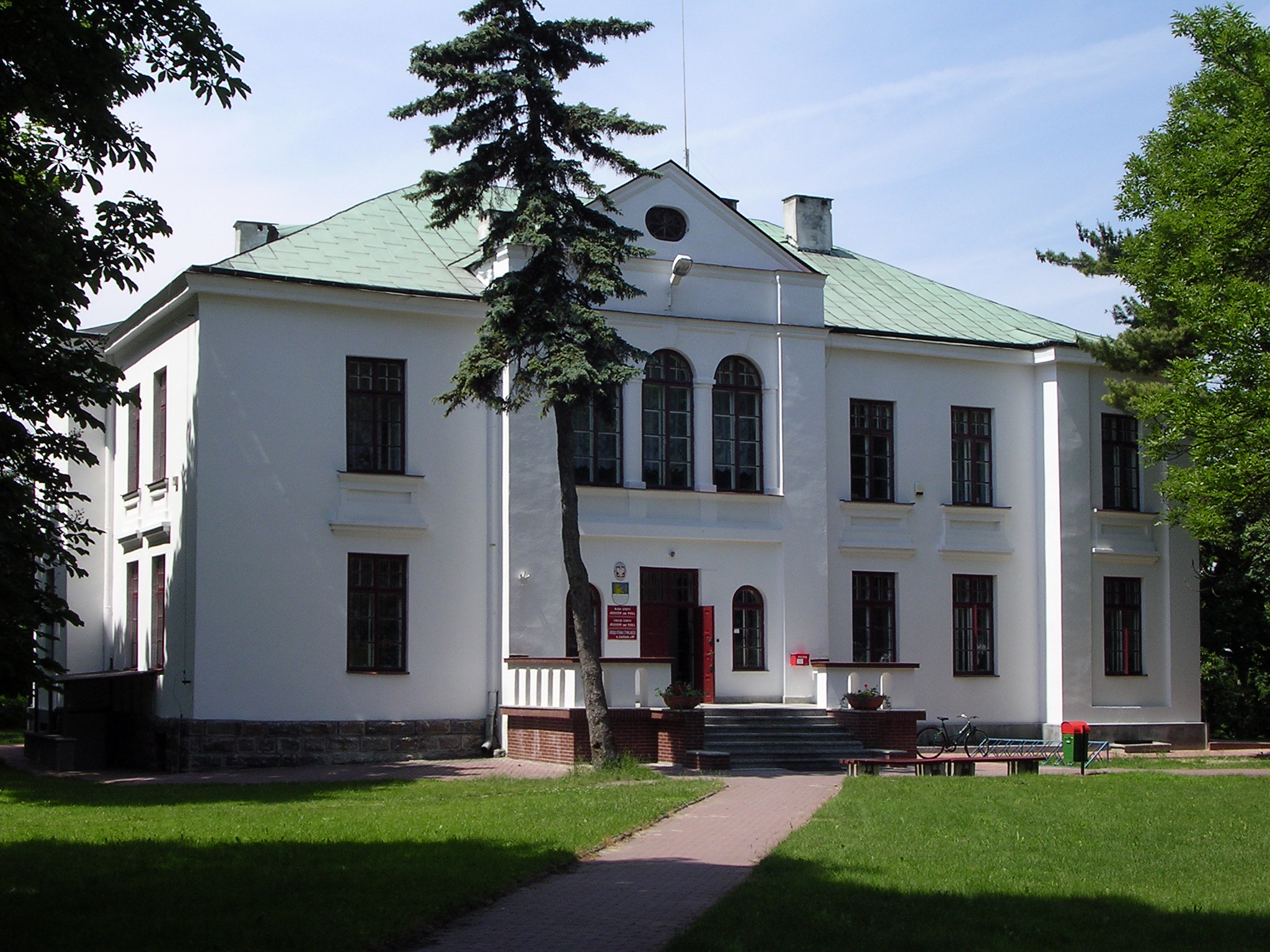 Manor house in Józefów nad Wisłą (Poland, Lubelskie voivodship)